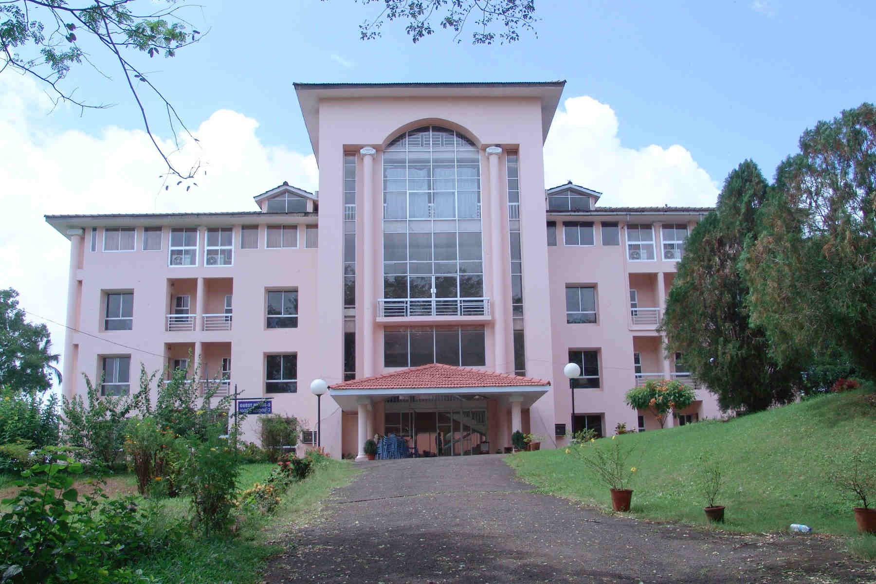 Kerala Institute of Local Administration Guest House Building